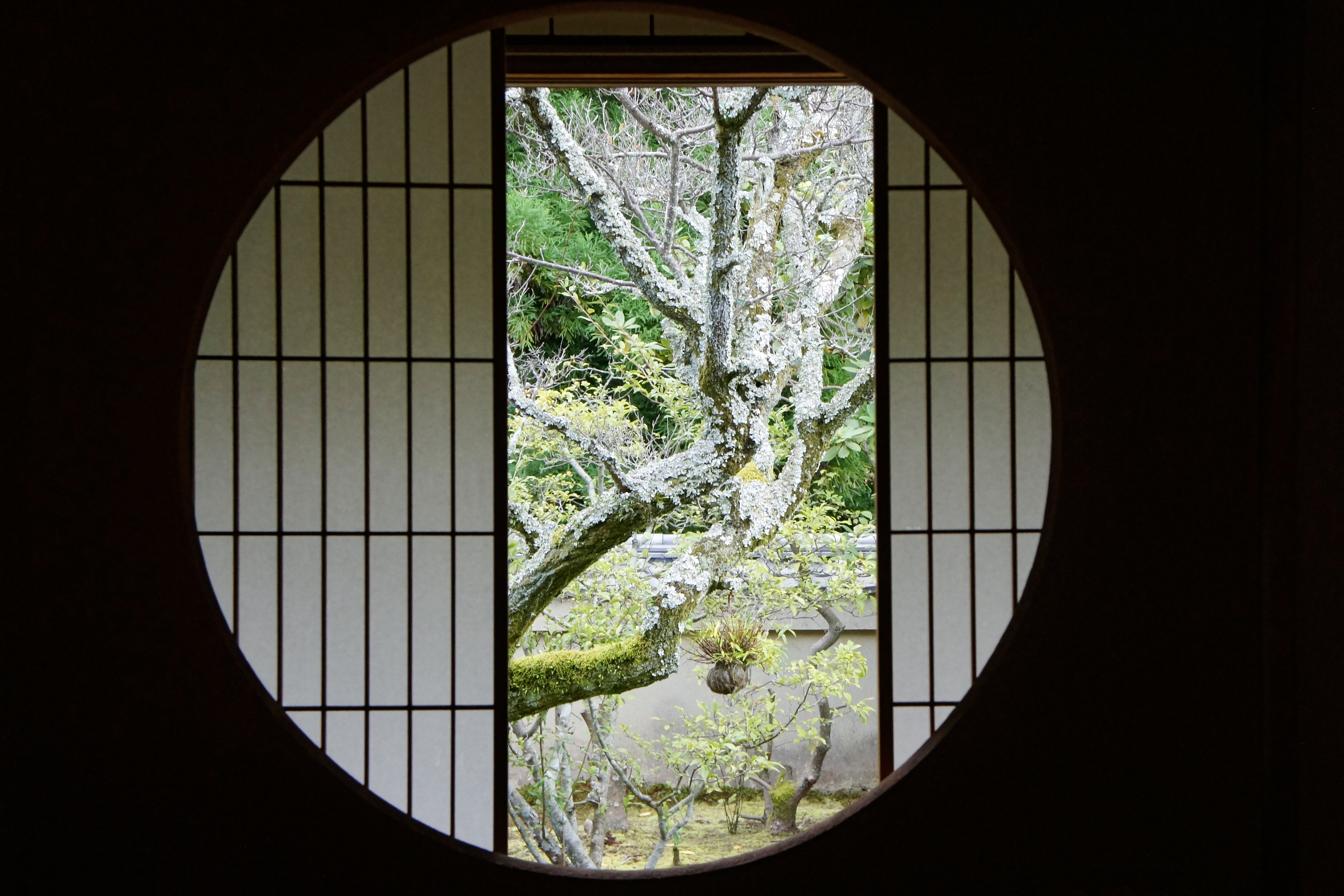 Unryu-in in Higashiyama-ku, Kyoto, Kyoto prefecture, Japan